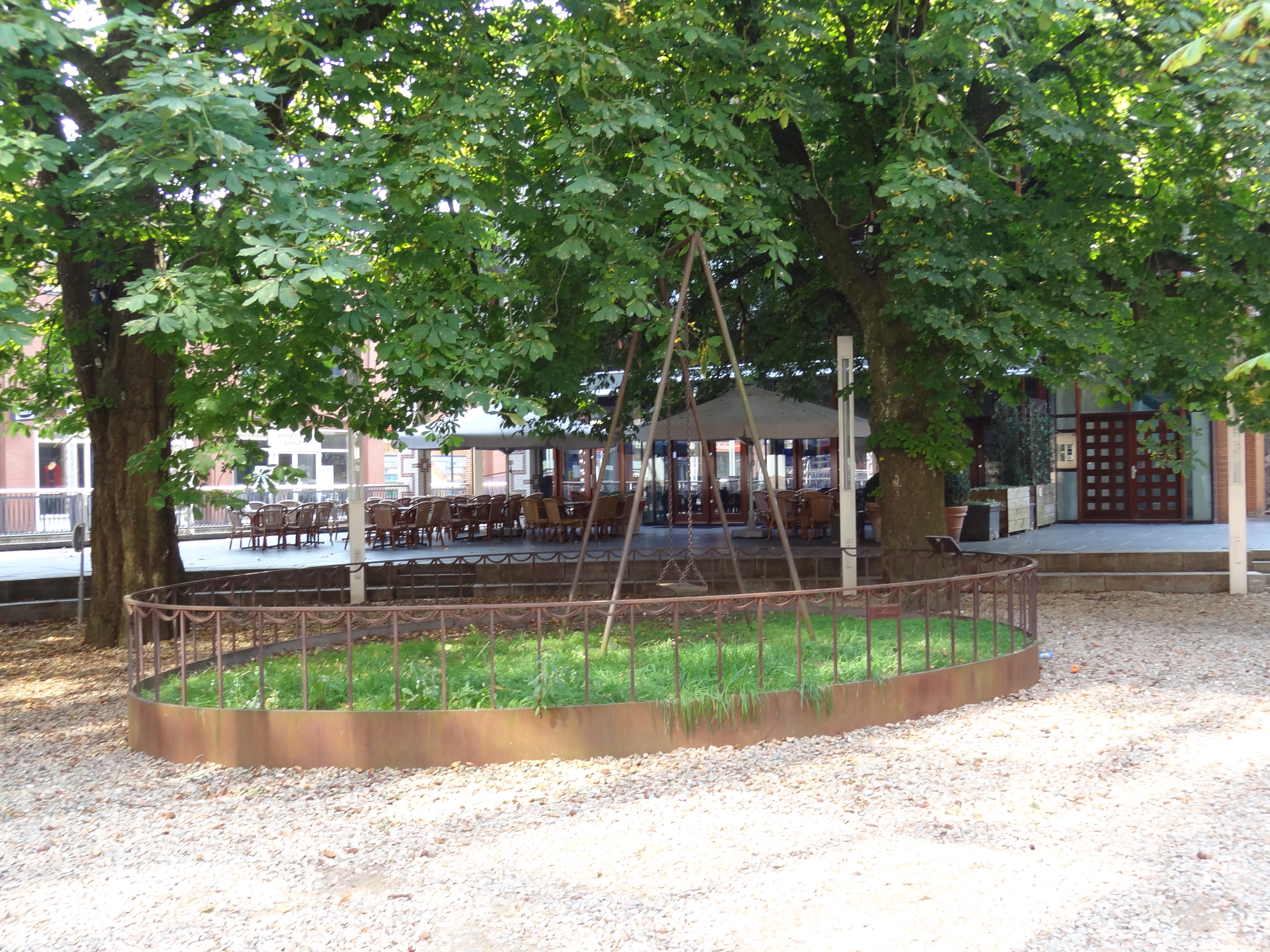 Sculpture 'De Schommel' (The Swing) created by Henk Visch at the Raadhuishof in Nijmegen, The Netherlands